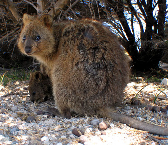 Quokka with young Setonyx brachyurus